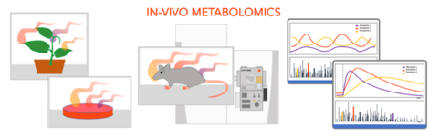 In-vivo metabolomics studies using SESI